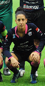 Linköpings FC team group in November 2014 before UWCL match against Zvezda 2005